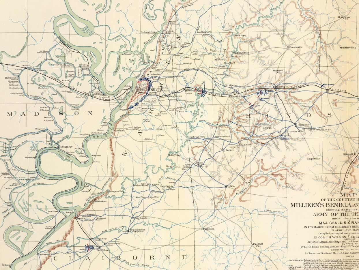 Map of the country between Milliken's Bend, La. and Jackson, Miss. showing the routes followed by the Army of the Tennessee under the command of Maj. Gen. U.S. Grant, U.S. Vls. in its march from Milliken's Bend to rear of Vicksburg in April and May 1863. Compiled, surveyed and drawn under the direction of Lt. Col. J.H. Wilson ... Drawn by Maj. Otto H. Matz ... and 1st Lieut. L. Helmle